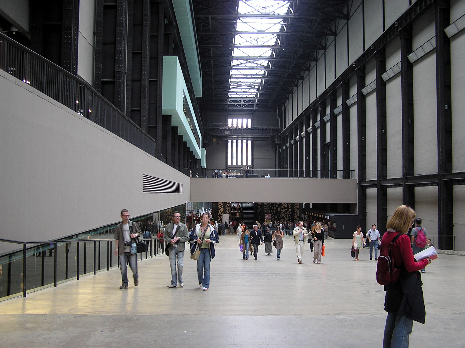 The Turbine Hall at the Tate Modern. No art work was on display at the time (June 2005). Photographed by Adrian Pingstone in June 2005 and released to the public domain.